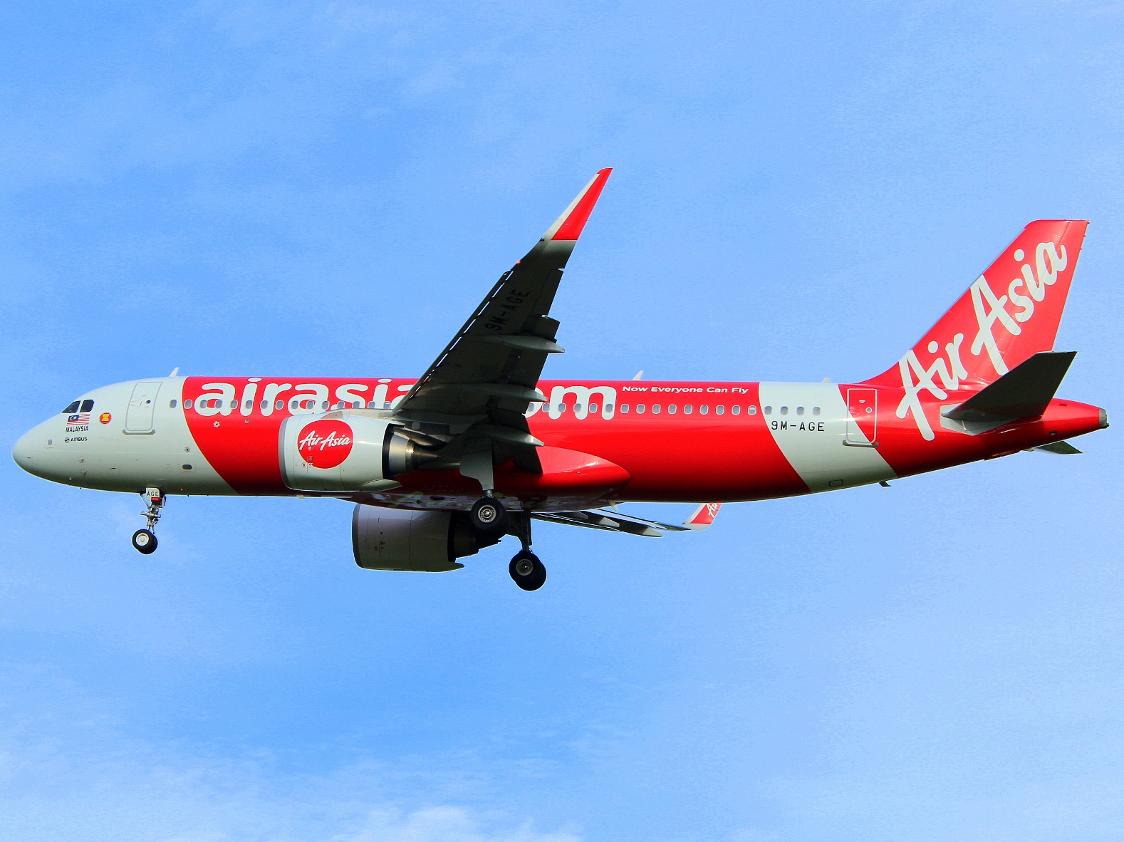 One of the AirAsia's Airbus A320neo (reg. code 9M-AGE) is on final approach at Sultan Iskandar Muda International Airport in Banda Aceh, Indonesia